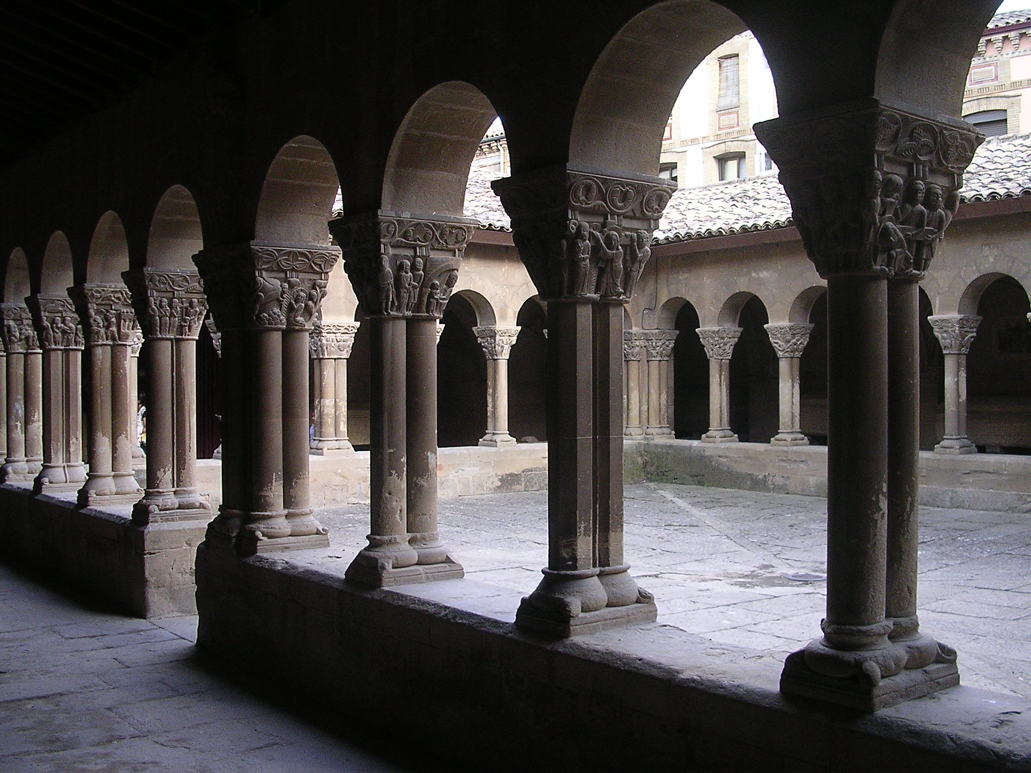 Huesca, Spain